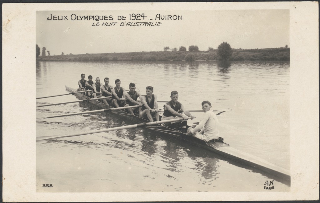 Part of collection: Jeux Olympiques de 1924.; Official postcard no. 398.; Also available in an electronic version via the Internet at: .au/nla.pic-vn3098063. Persistent URL .au/nla.pic-vn3098063